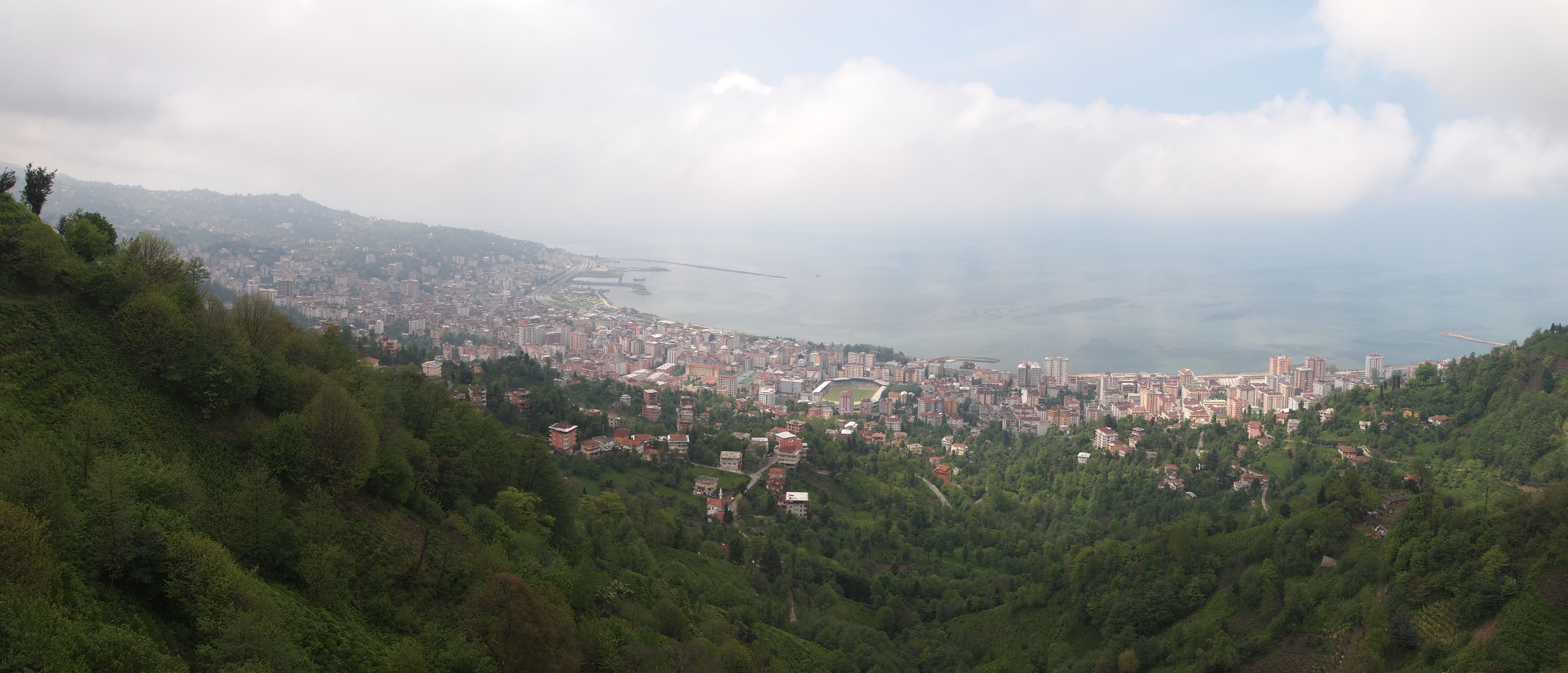 A small panorama of Rize from Tea Mountain. Most of the mountain slopes are covered by tea, as you might expect from the name (I don't actually know for certain that this is the proper name, but that's what all my friends called it).